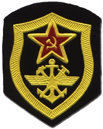 Emblem of the soviet armed forces 1960 to 1991, Soviet Army (military branches, service branches or armed services), sleeve badge (appliquéd) right hand upper arm (dress uniform/ parade uniform) to be used for the ranks OR1 to 8, and WO1 to 2, here: – “Military Railway Troops”, design 1985.